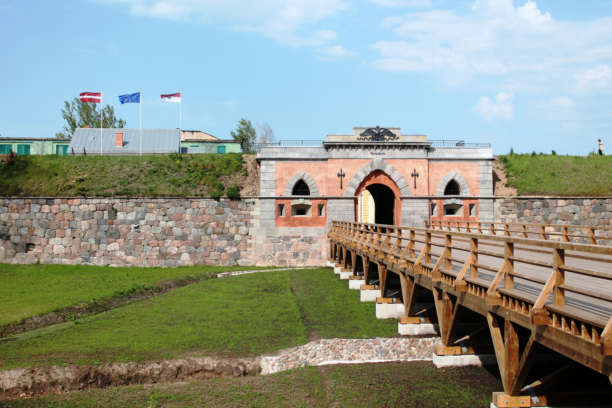 A view of the external facade of the Nicholas Gate and wooden pedestrian bridge with flags on the curtain between the Gate and Bastion No.8 in Daugavpils Fortress